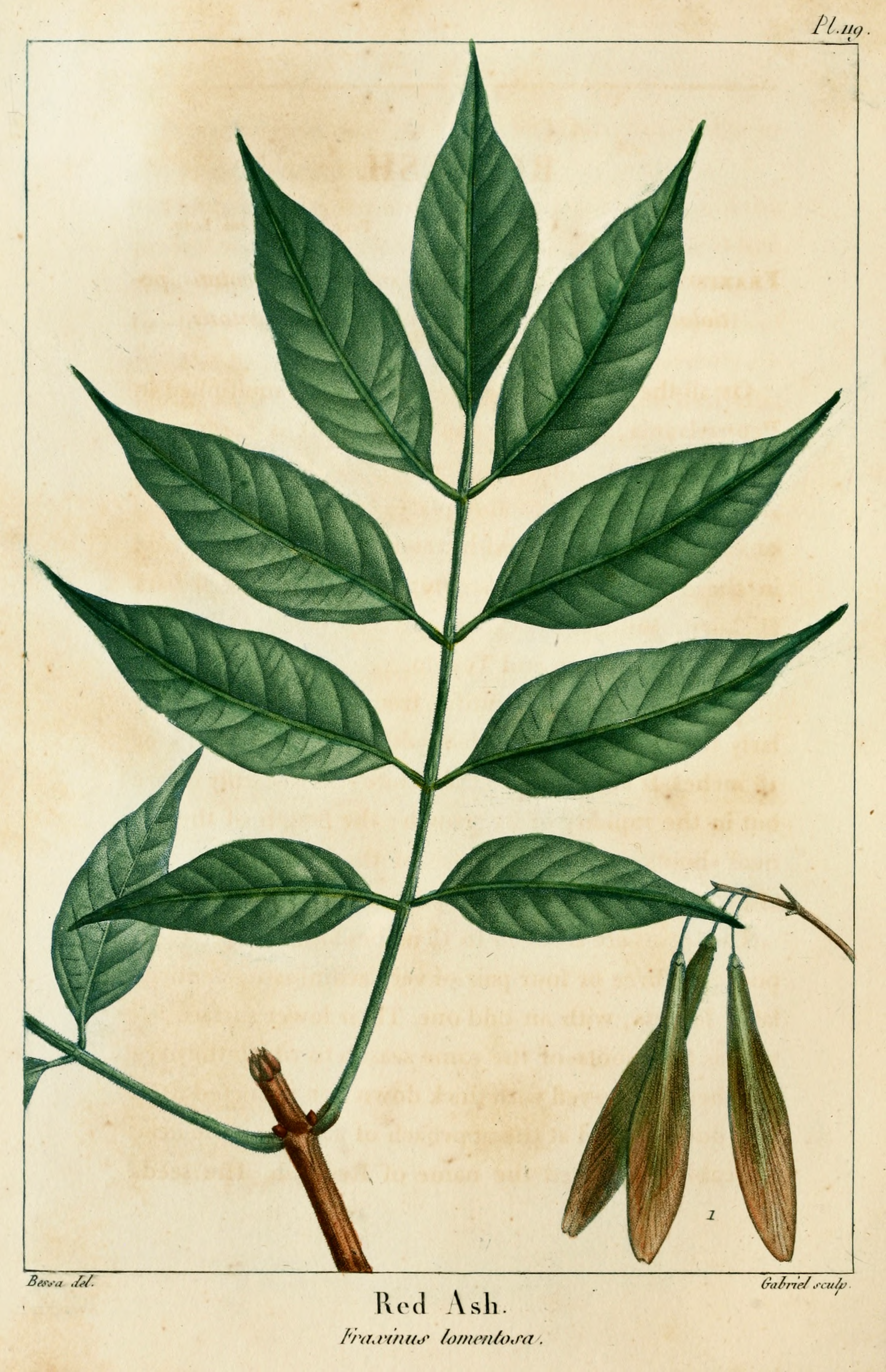 Plate 119 from The North American Sylva: Fraxinus profunda.Original caption: Red Ash. Fraxinus lomentosa. [sic.])